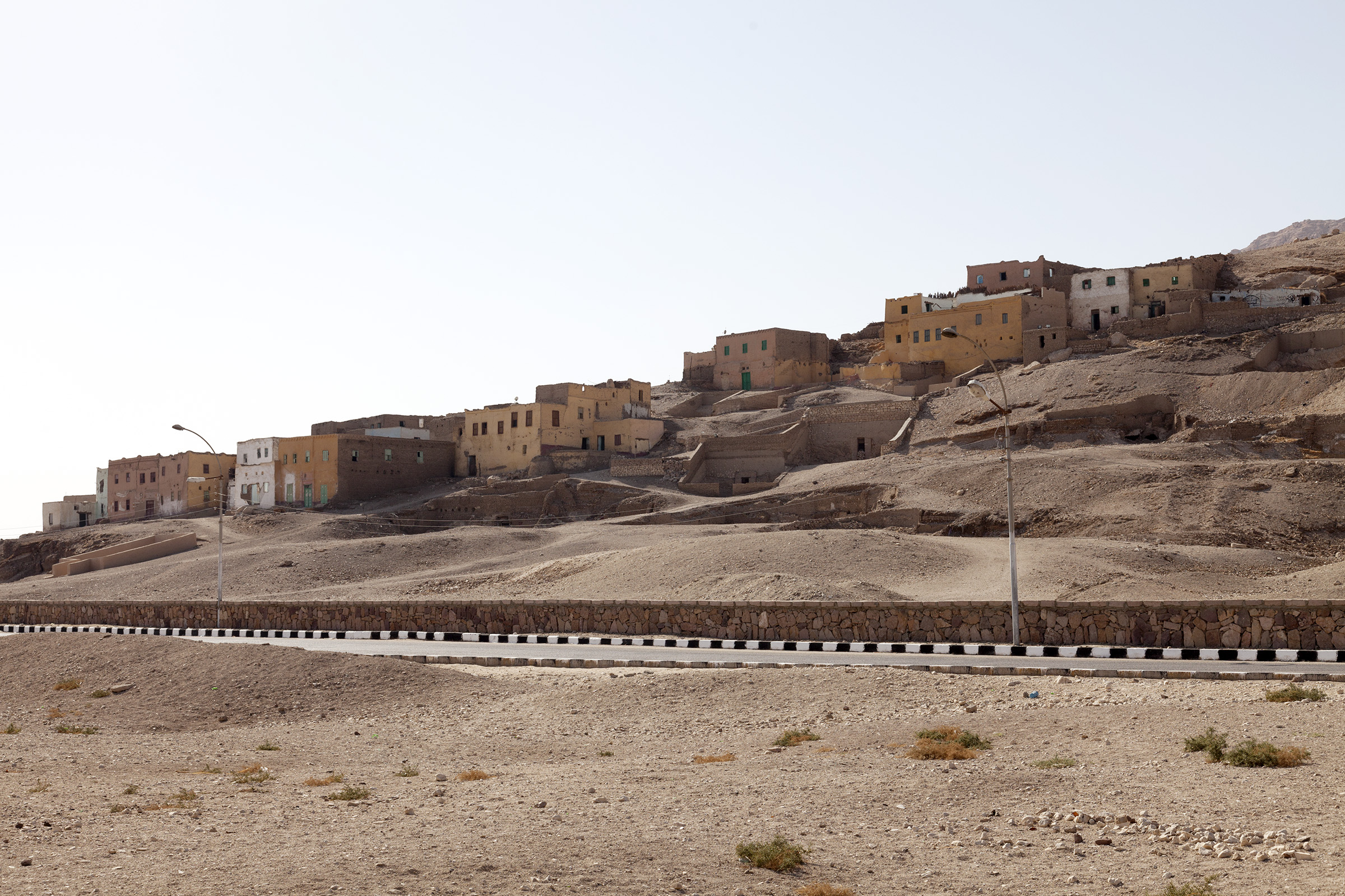 Village of Qurnat Muraʿī, Luxor West Bank, Egypt